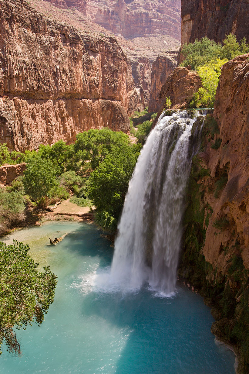 Havasu Falls near Supai, Arizona. The water is blue/green due to high concentrations of dissolved lime picked up as the water runs through the sedimentary rock of Havasu Canyon and the Grand Canyon.